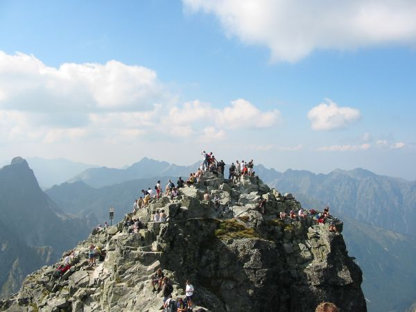 Summit of Rysy in the Tatra mountains on the Polish-Slovak border